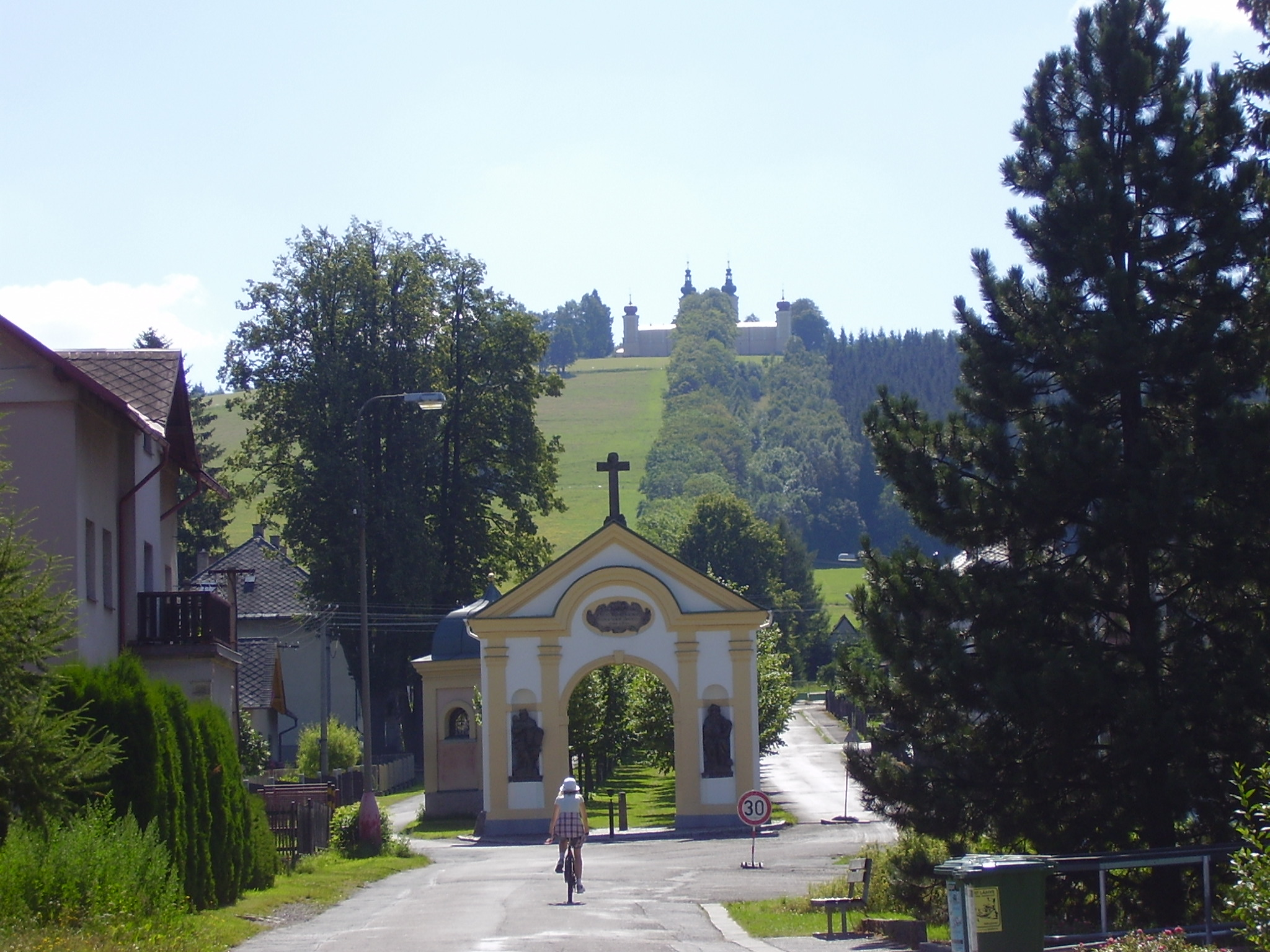 Kraliky - Look at Cloister Hora Matky Bozi